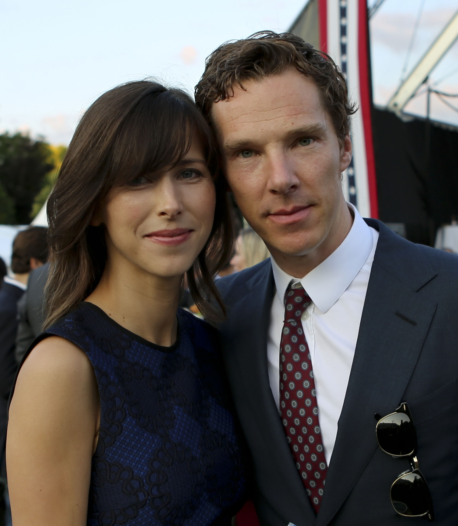 Benedict Cumberbatch and Sophie Hunter - July 2015